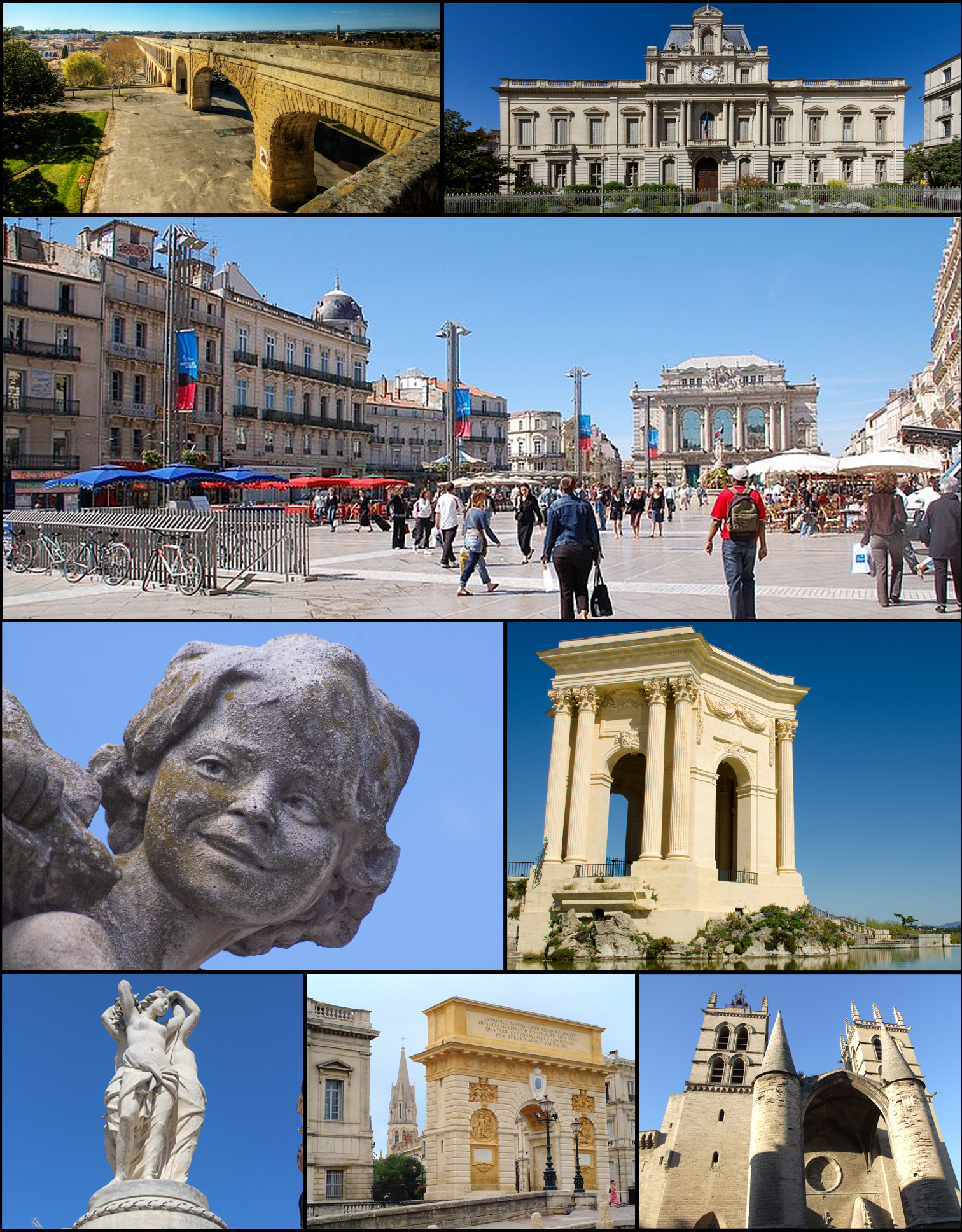 Photo montage of the representative places of the city of Montpellier (Hérault) France.